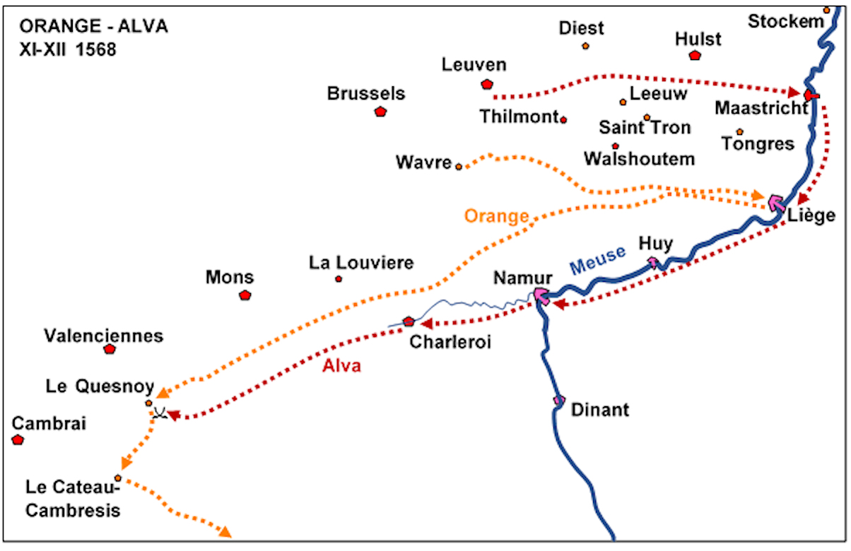 Map showing movements in campaign of Prince of Orange vs Duke of Alva November and December 1568 leading to Battle of le Quesnoy